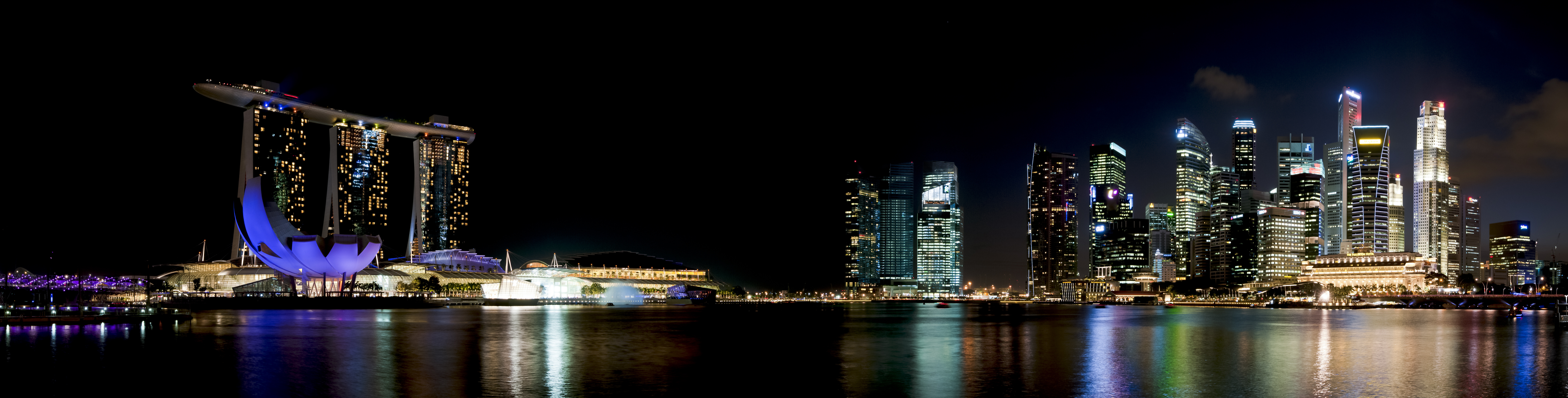 marina bay night singapore 2012